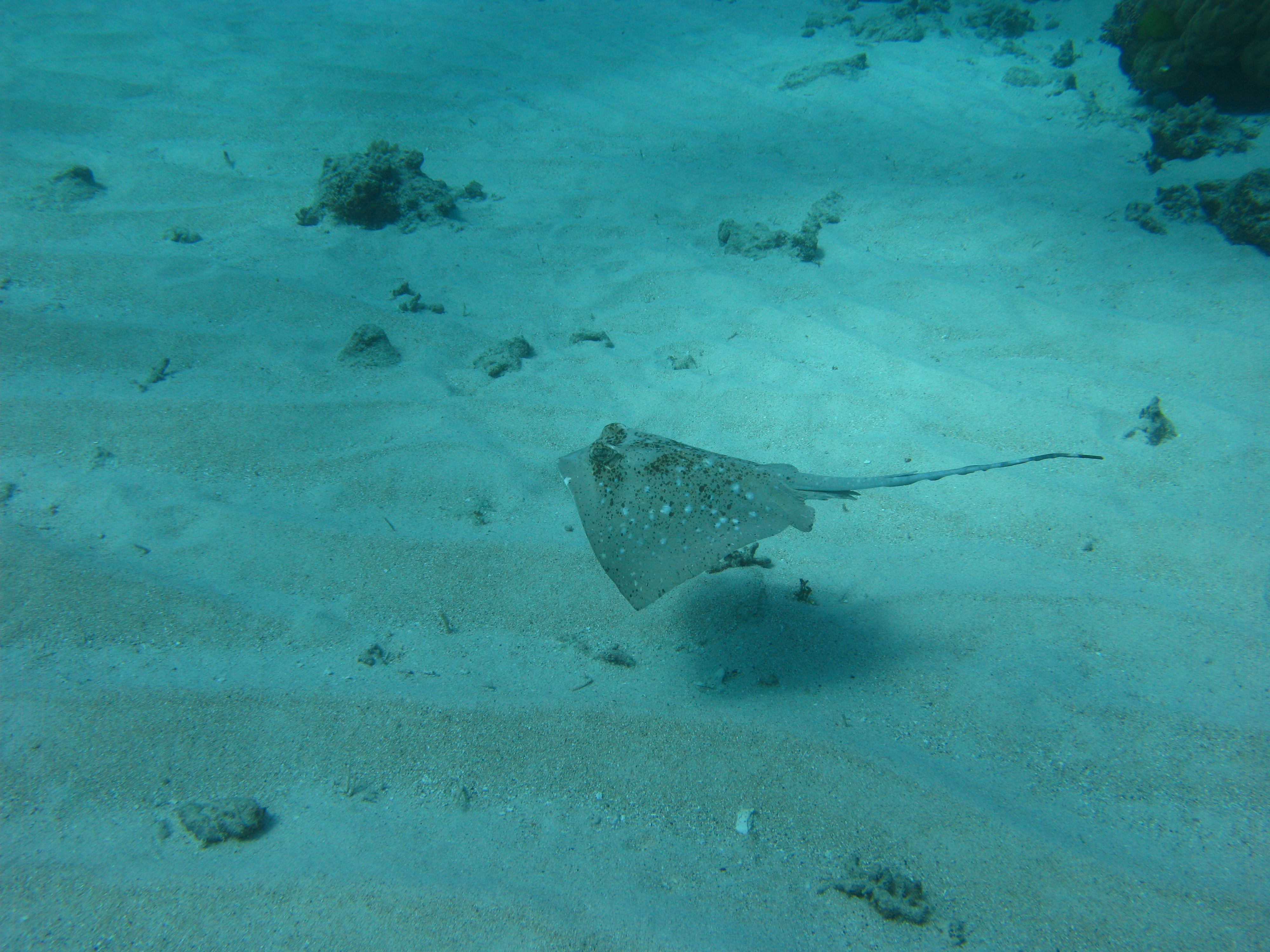 Bluespotted stingray (Neotrygon kuhlii) on the Great Barrier Reef